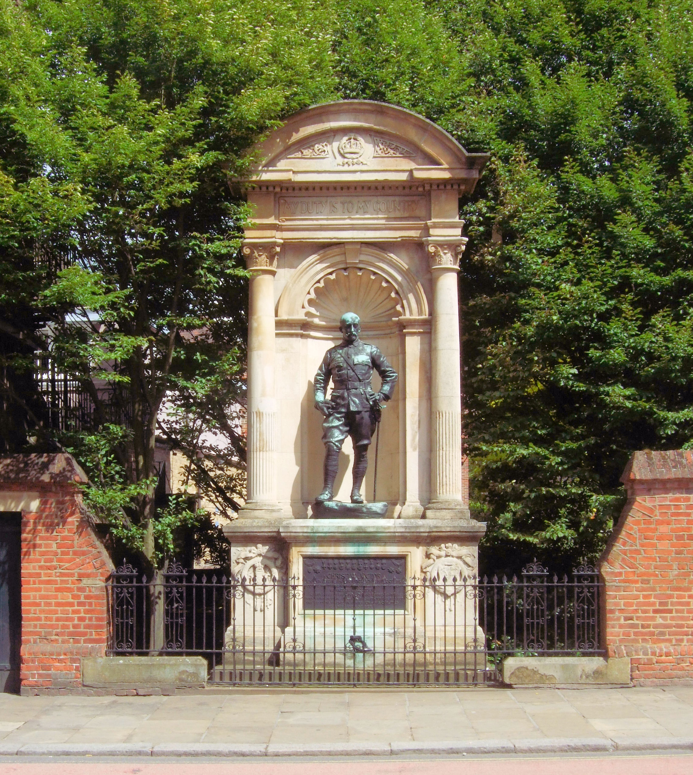 Monument to Prince Christian Victor of Schleswig-Holstein in Windsor, Berkshire, England.